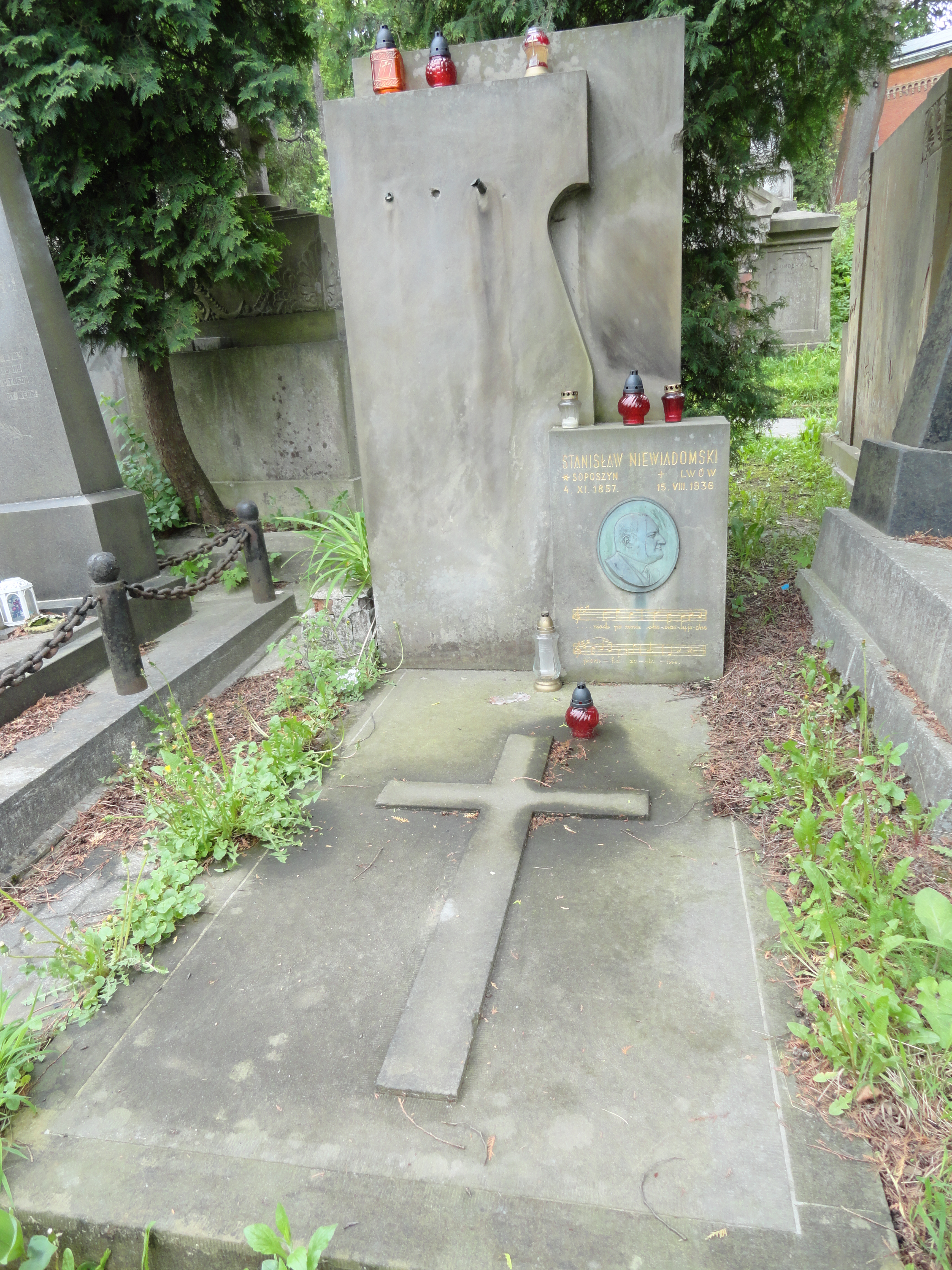 Stanisław Niewiadomski (composer)